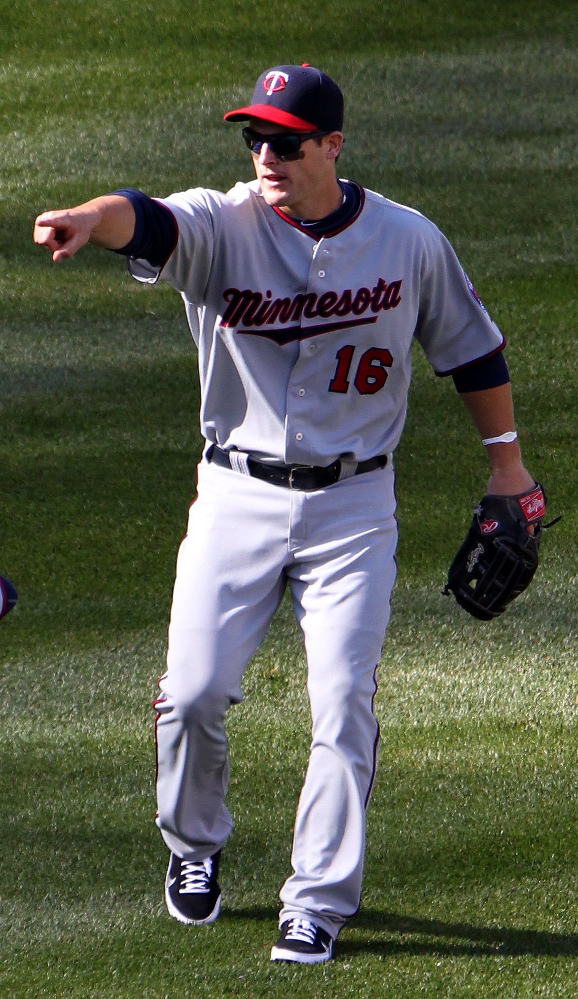 Josh Willingham